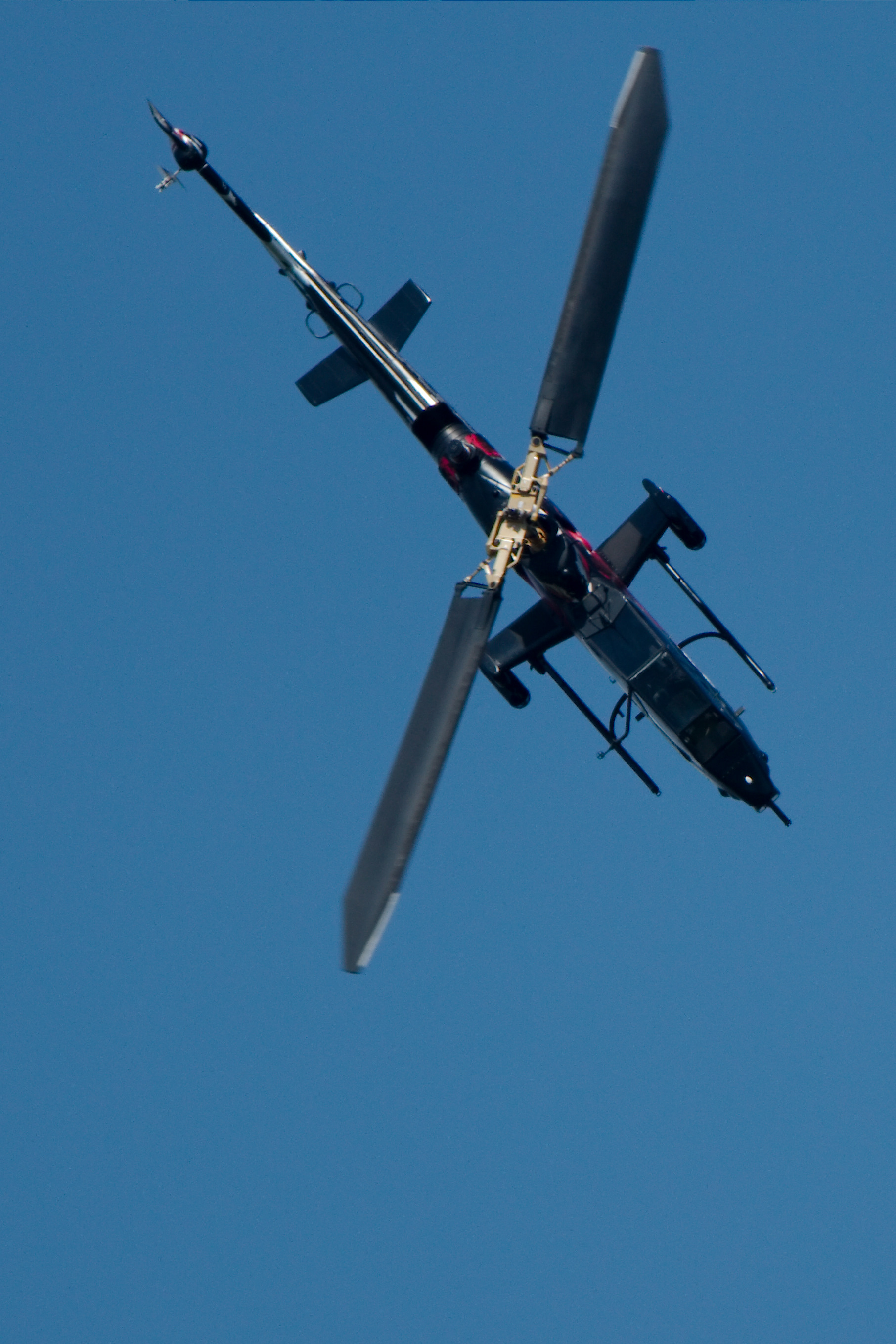 Bell AH-1F at Airpower 2011